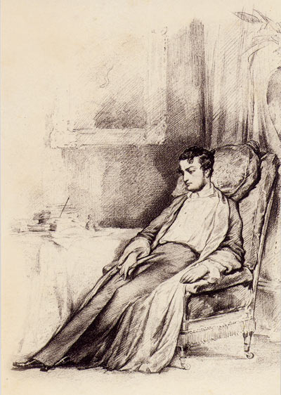 Onegin in his cabinet